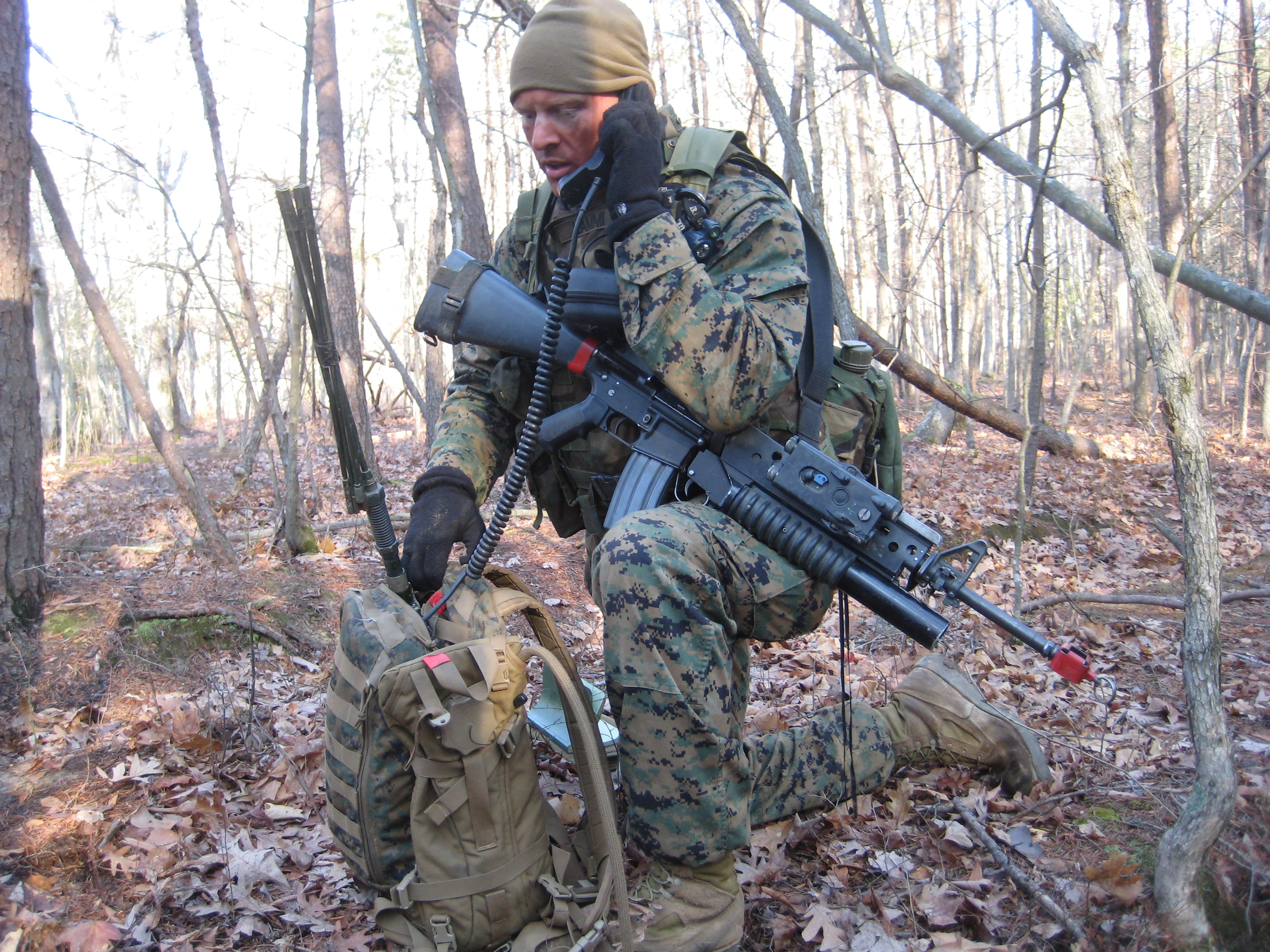 PRC 119 military radio tranceiver, photo by Aaron Lammi, TBS, Quantico VA, Winter 2008